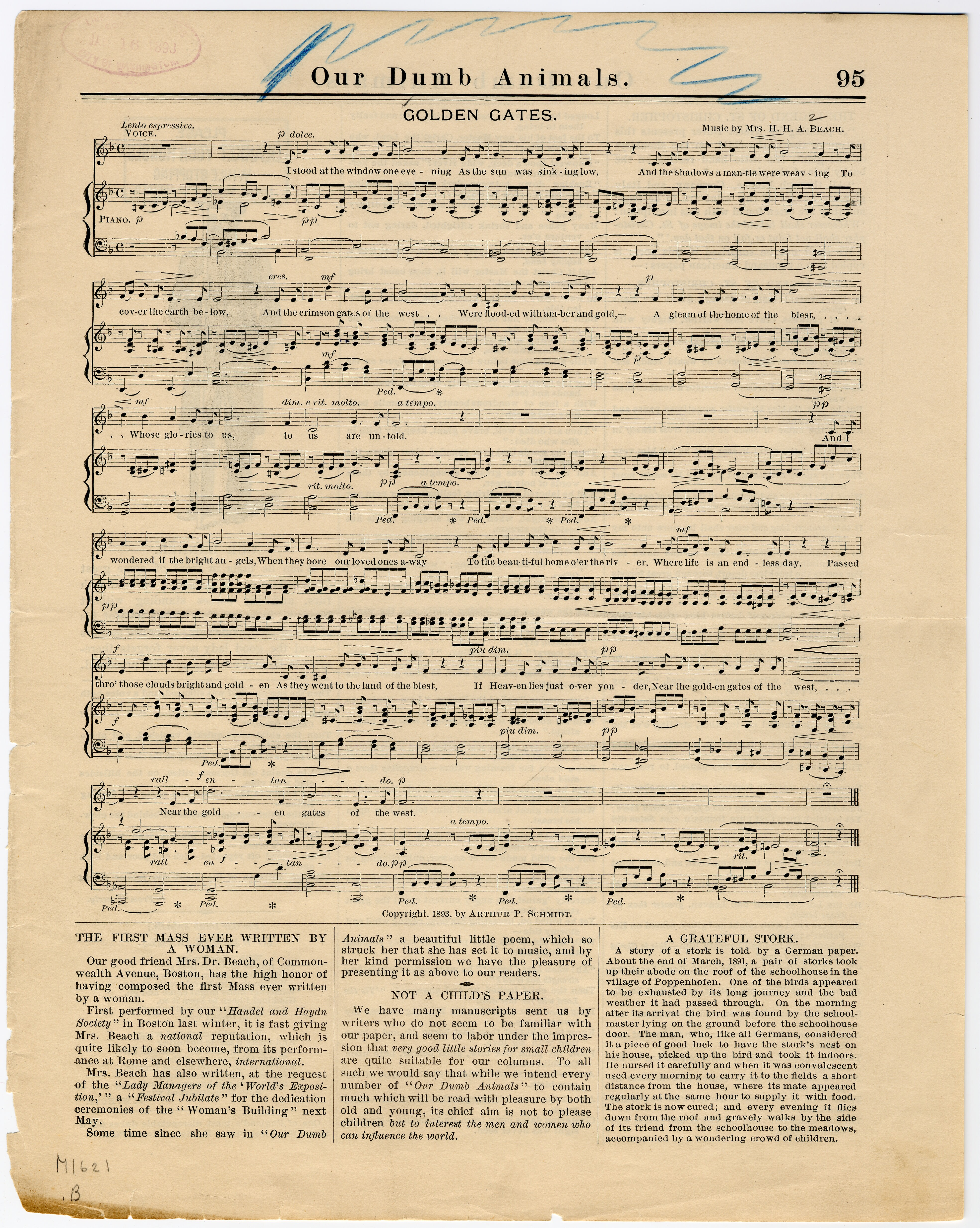 "Golden Gates", sheet music by Amy Beach